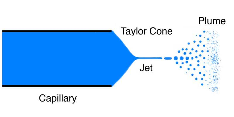 Electrospray schematic